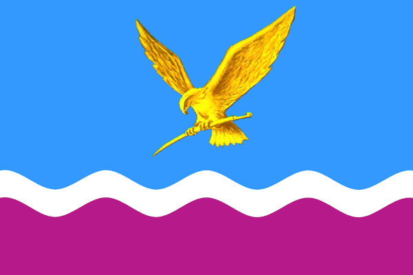 Flag of Timashyovsky District, Krasnodar Territory, Russia